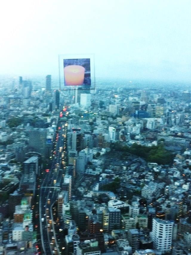 This is an AR poetry picture. A flowing rose in the sky in Tokyo.